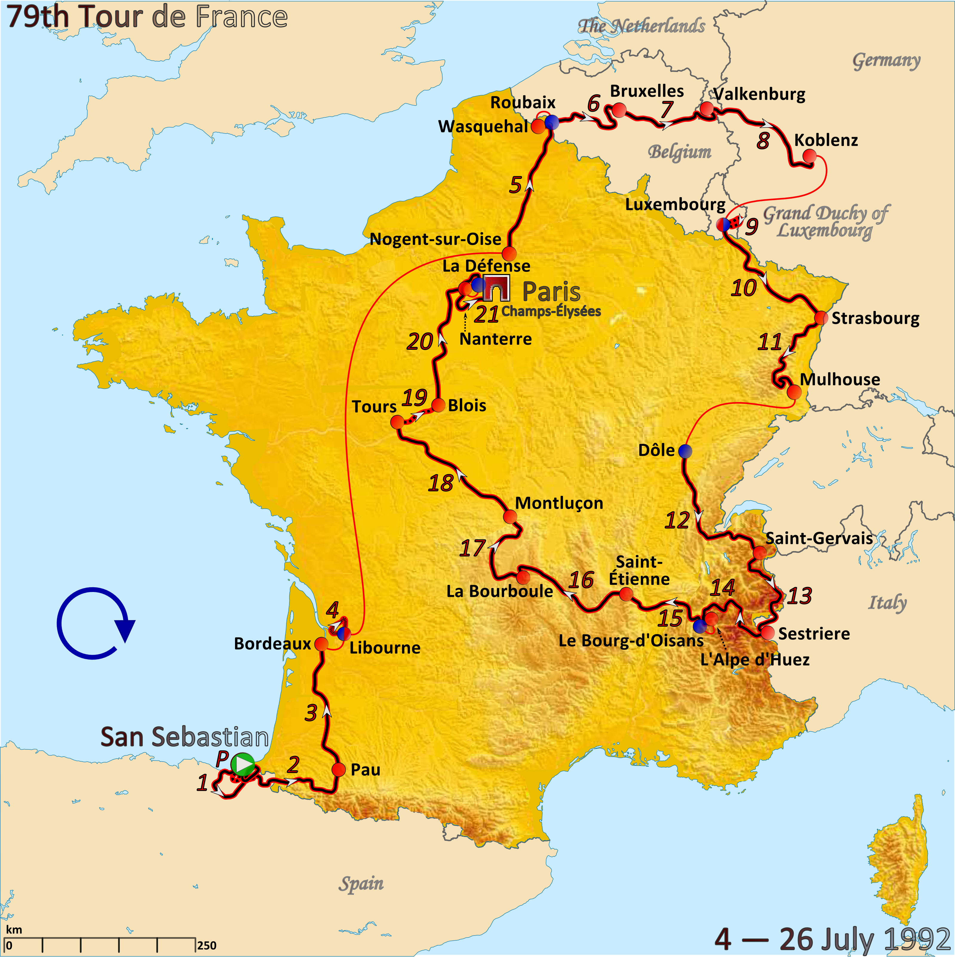 Map of the 1992 Tour de France created in Inkscape